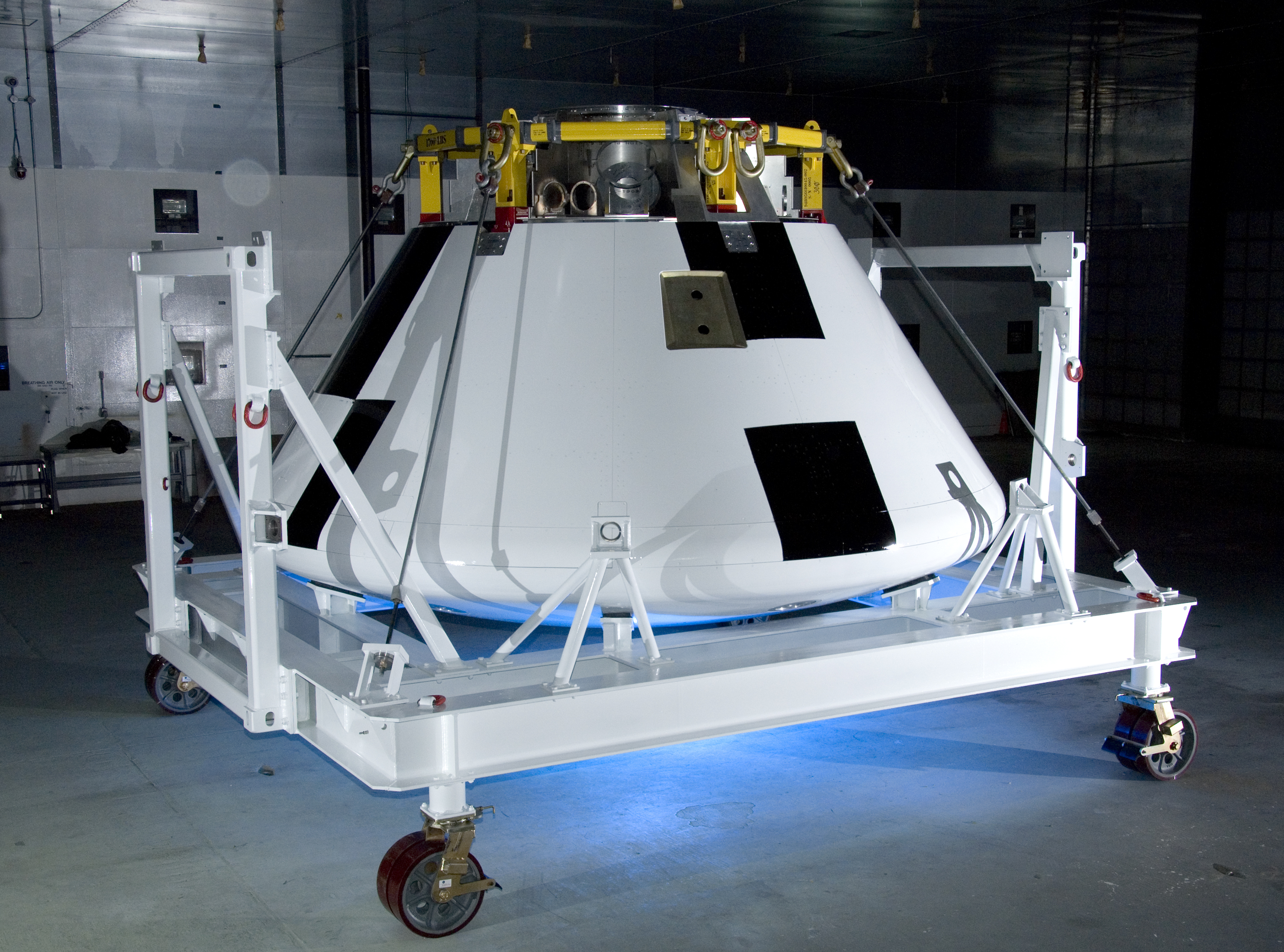 Sporting a fresh paint job, NASA's first Orion full-scale abort flight test crew module awaits avionics and other equipment installation.